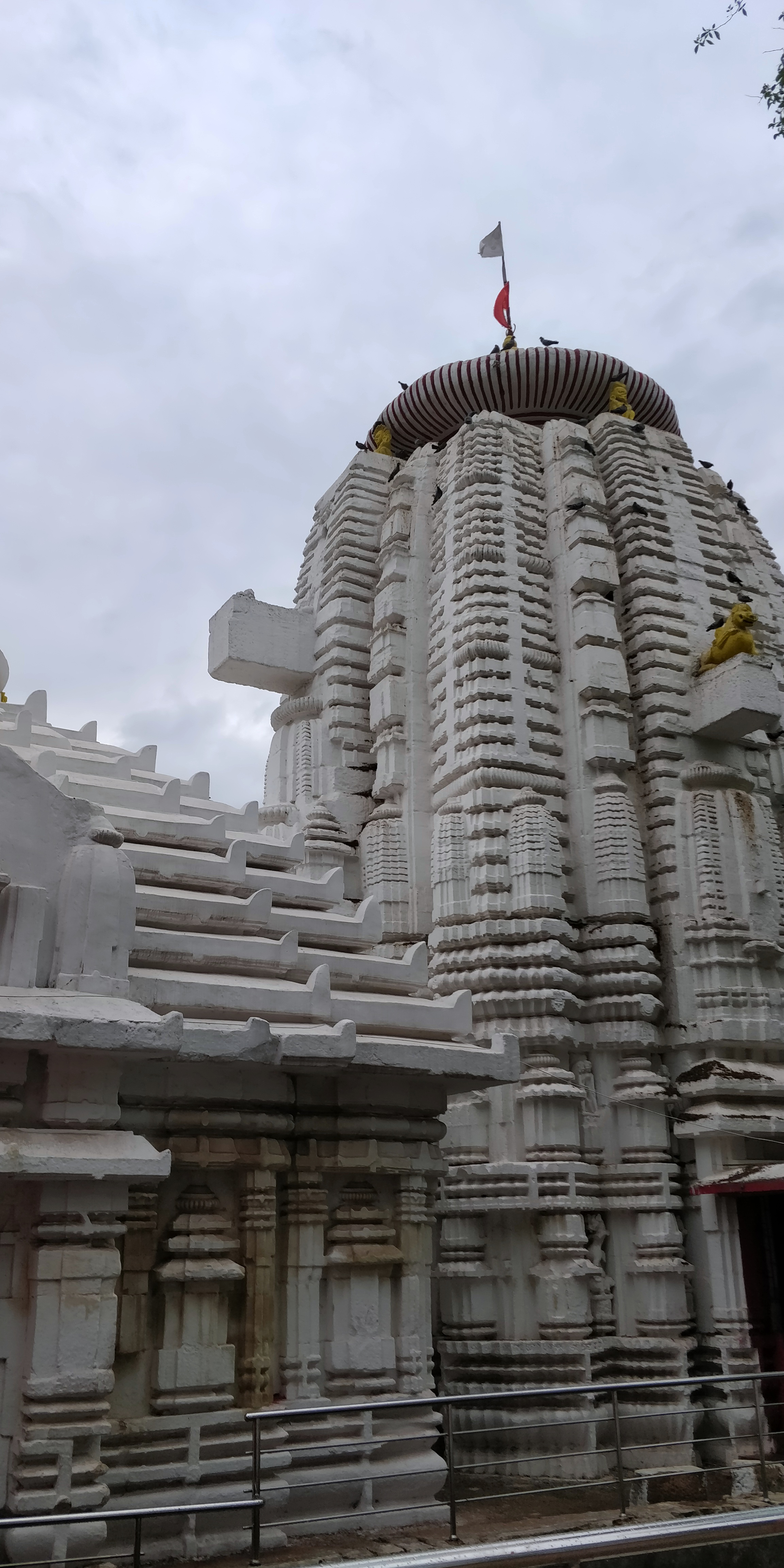 Temple of Kedareswara at Bhubaneswar, Odisha. Within Kedar-Gouri complex, Old Town. ଓଡ଼ିଆ: ଭୁବନେଶ୍ୱରରେ ସ୍ଥିତ କେଦାରେଶ୍ୱର ଦେଉଳ । ଏହା କେଦାରଗୌରୀ ପ୍ରାଙ୍ଗଣରେ ରହିଛି ।